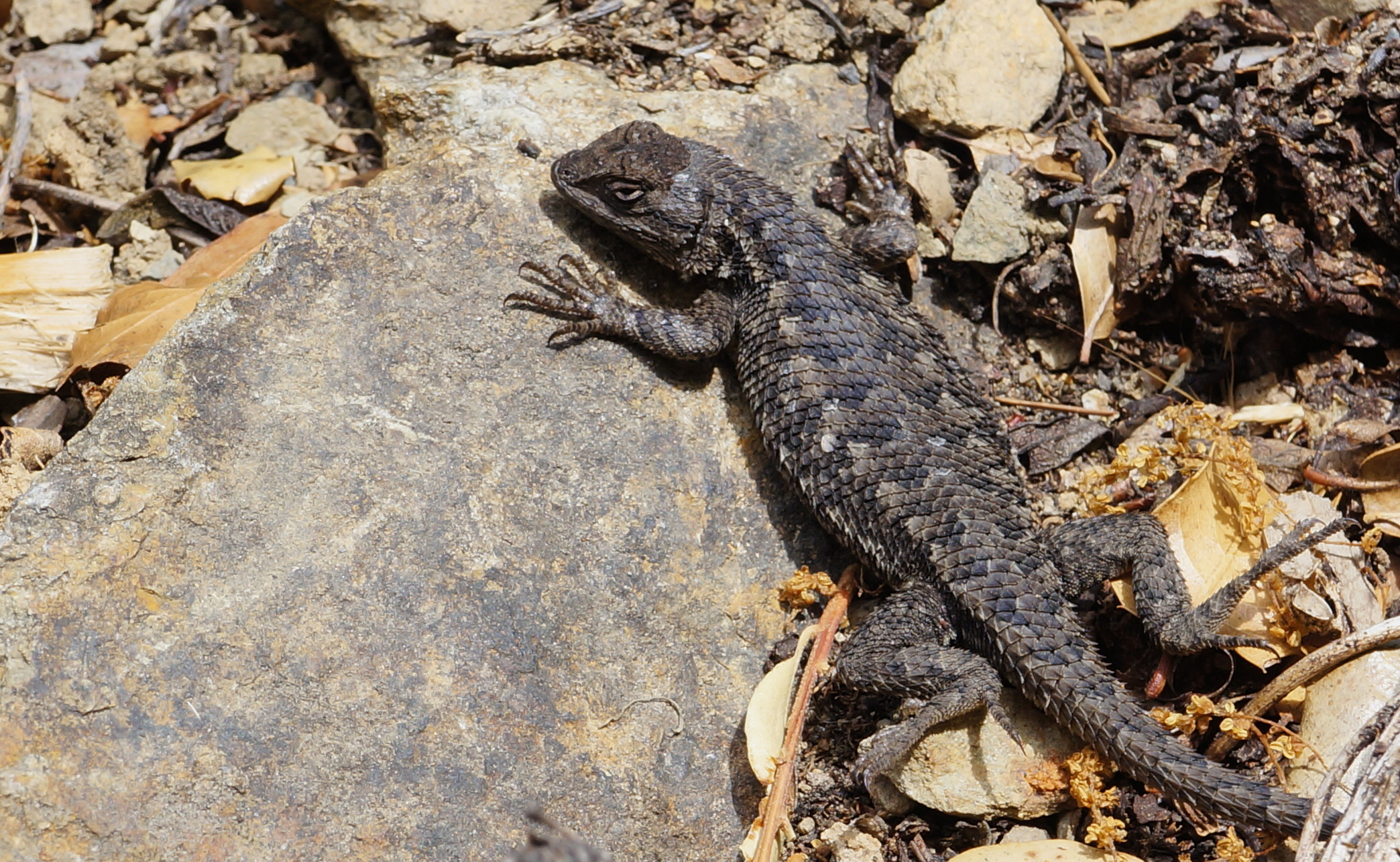 A western fence lizard lounging in Mt. Tamalpais